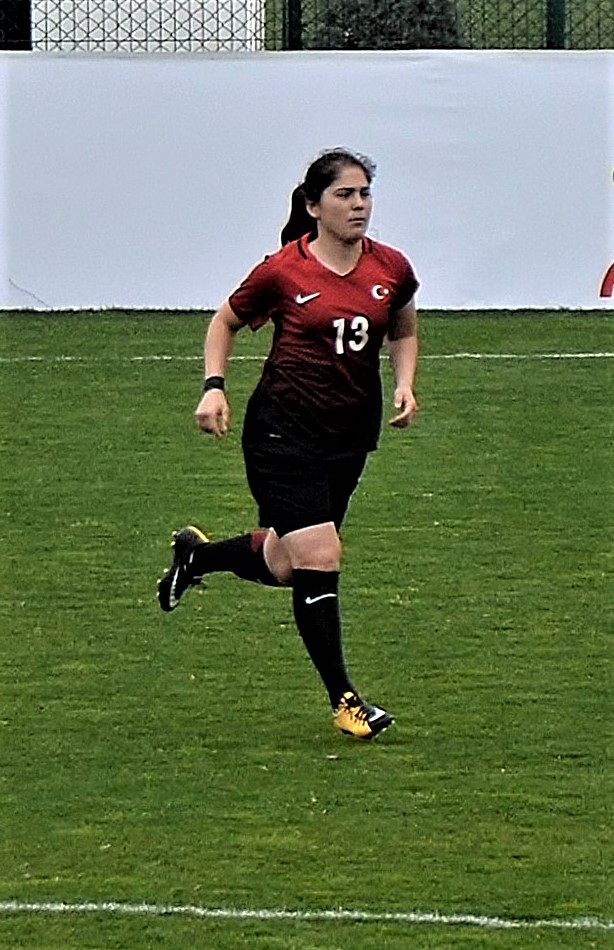 Busem Şeker playing for Turkey women's national football team in the friendly home match against Estonia at TFF Riva Facility on 7 April 2018.